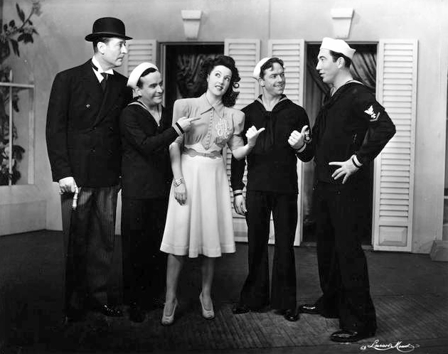 Promotional still for the original Broadway production of Panama Hattie Left to right: Arthur Treacher, Pat Harrington, Ethel Merman, Frank Hyers, Rags Ragland